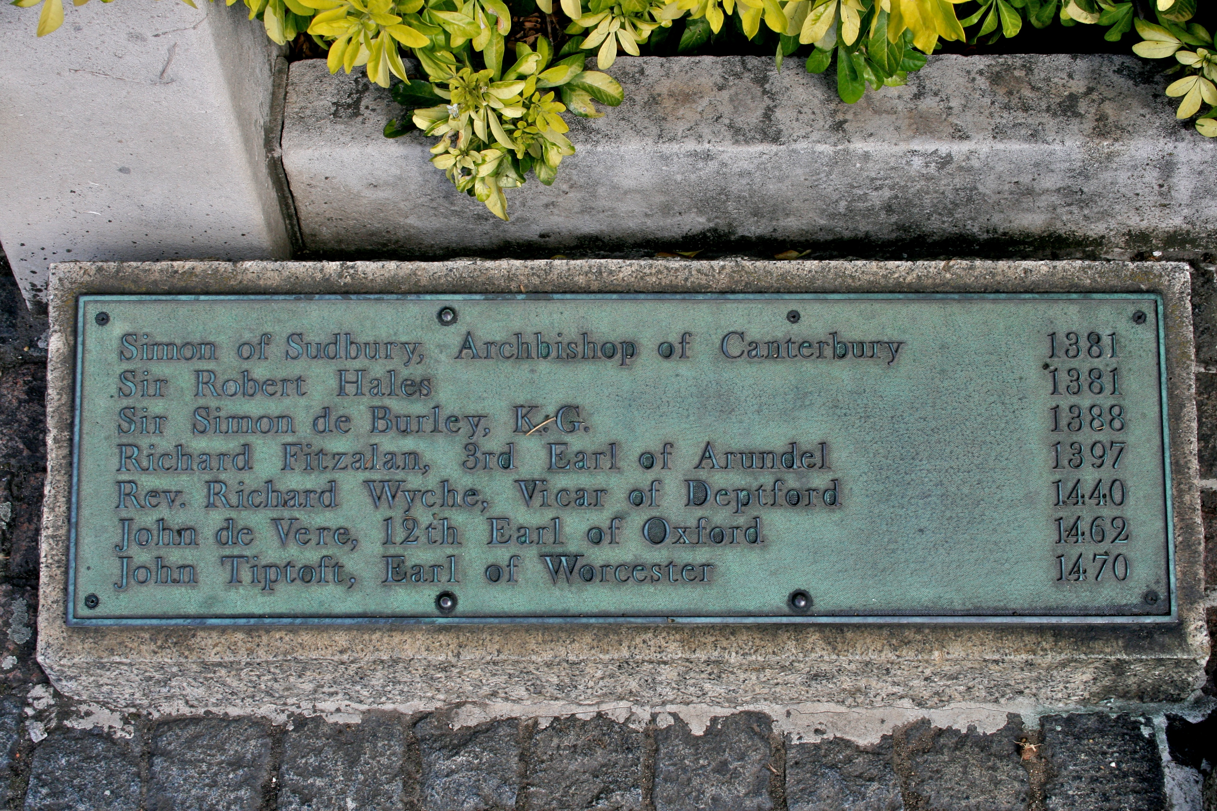 Sign at the Tower Hill scaffold location. Sign reads: "Simon of Sudbury, Archbishop of Canterbury 1381 Sir Robert Hales 1381 Sir Simon de Burley, K.G. 1388 Richard Fitzalan, 3rd Earl of Arundel 1397 Rev. Richard Wyche, Vicar of Deptford 1440 John de Vere, 12th Earl of Oxford 1462 John Tiptoft, Earl of Worcester 1470"